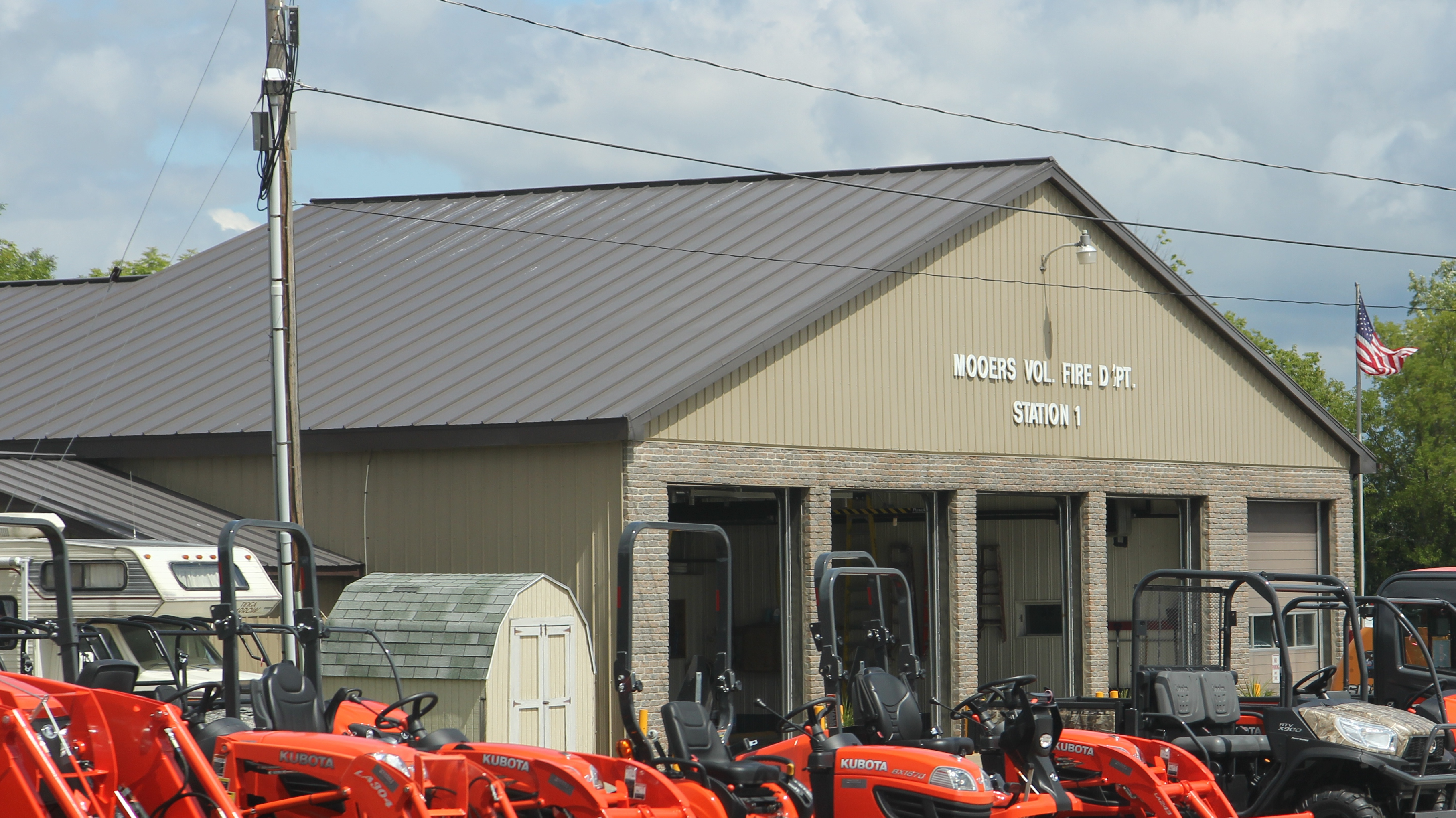 The fire station for Mooers, New York, on US11.